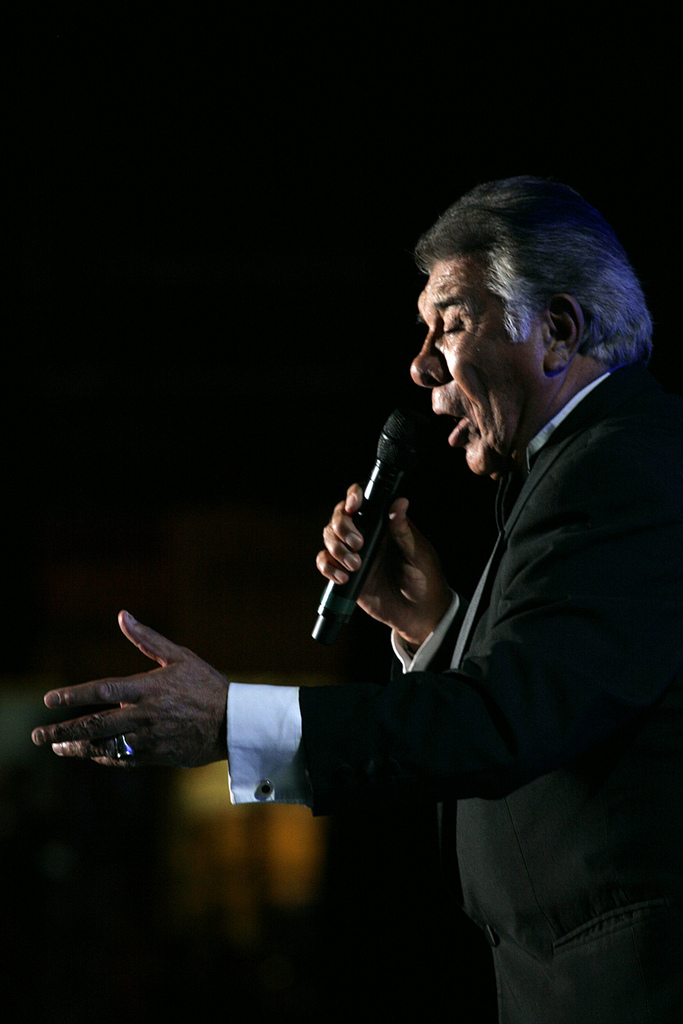 "Tango Argentino", Claudio Segovia's spectacle, at the Obelico, Buenos Aires, feb 2011. Singing Raúl Lavié.